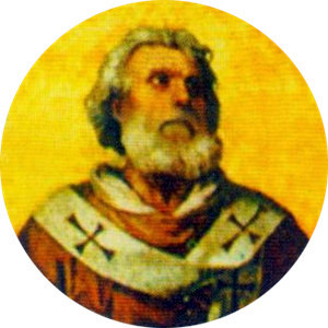 Portait of Pope Pelagius I in the Basilica of Saint Paul Outside the Walls, Rome